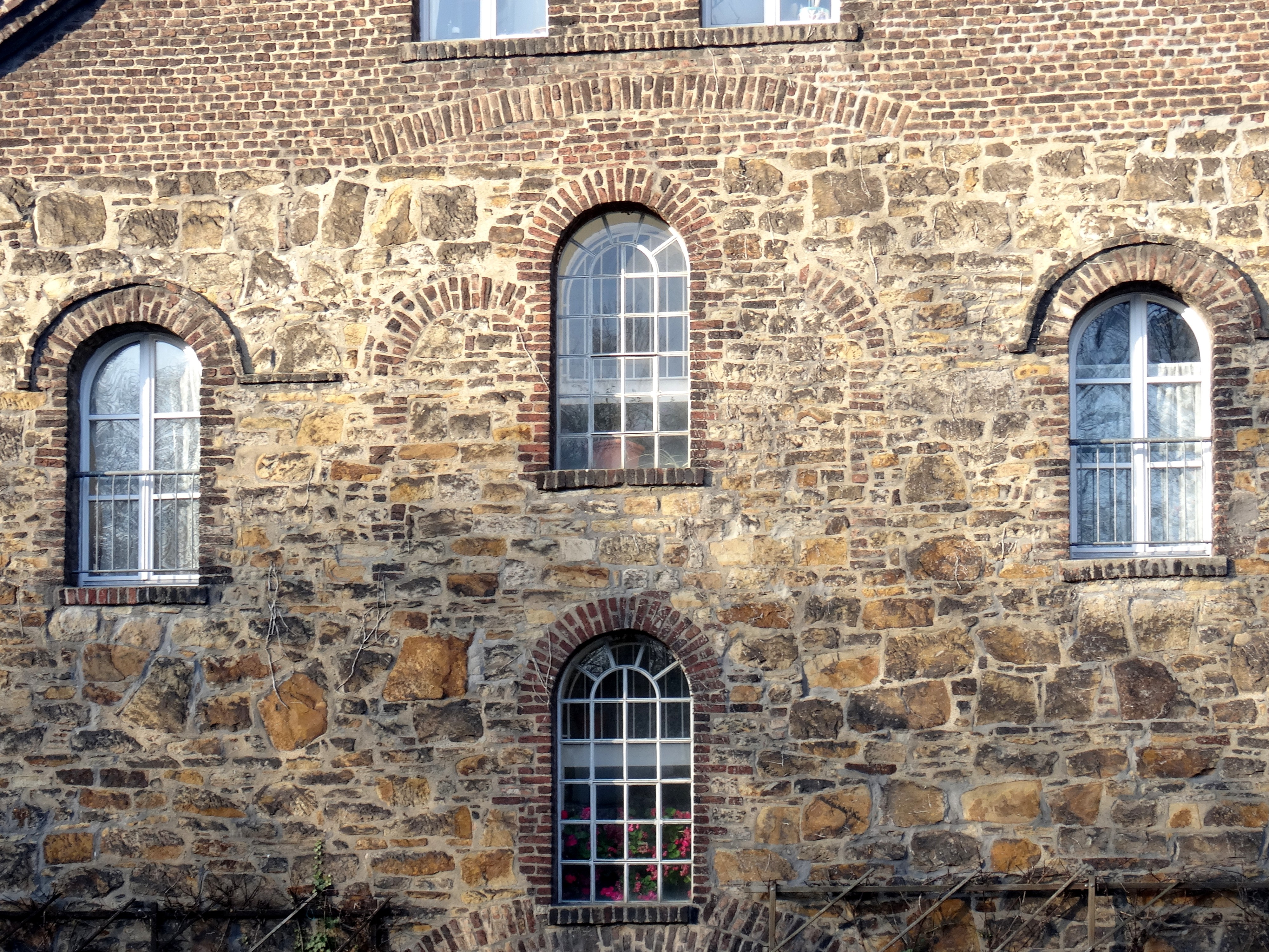 Engine House of the Wallfisch Mine in Witten, converted to a residential building.